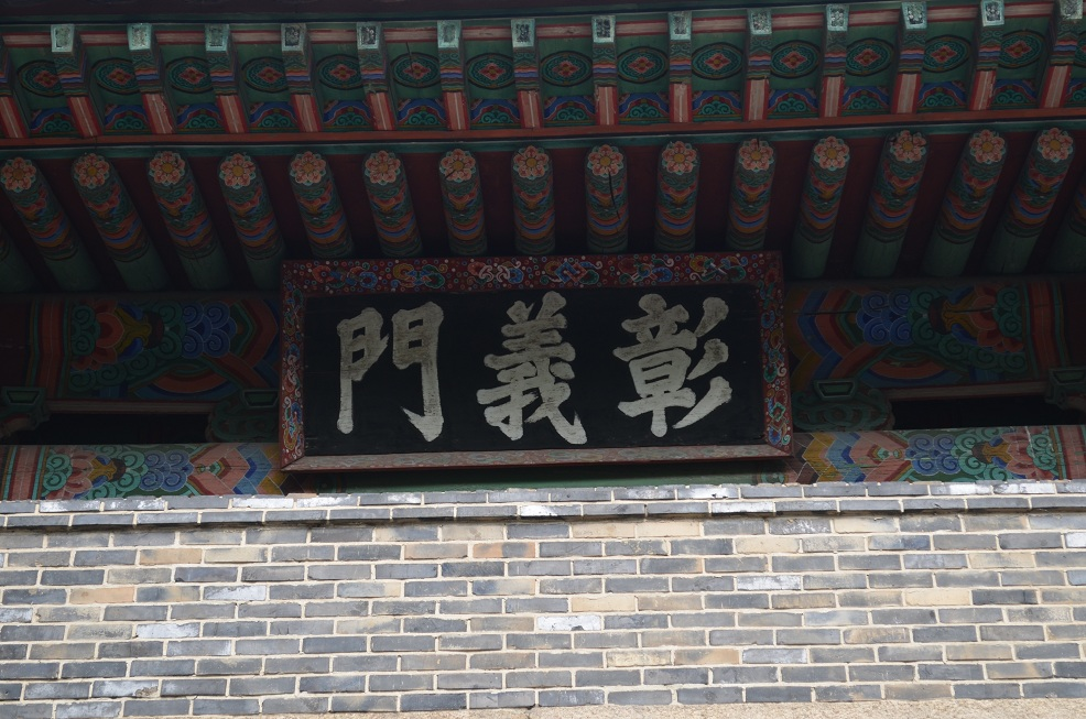 Signboard of Changuimun Gate, Seoul, South Korea. Changuimun is also known as Buksomun, or Northwest Gate. Signboard was photographed June 6, 2012.